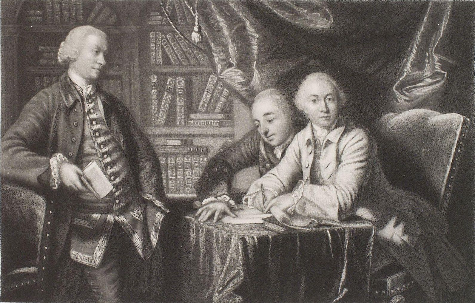 George Augustus Selwyn; Richard Edgcumbe, 2nd Baron Edgcumbe; George James Williams, by Henry Graves (died 1892), published 1865. Depicts George Augustus Selwyn (standing), Richard Edgcumbe writing on a desk and looking towards the viewer, with George James Williams looking over his shoulder.